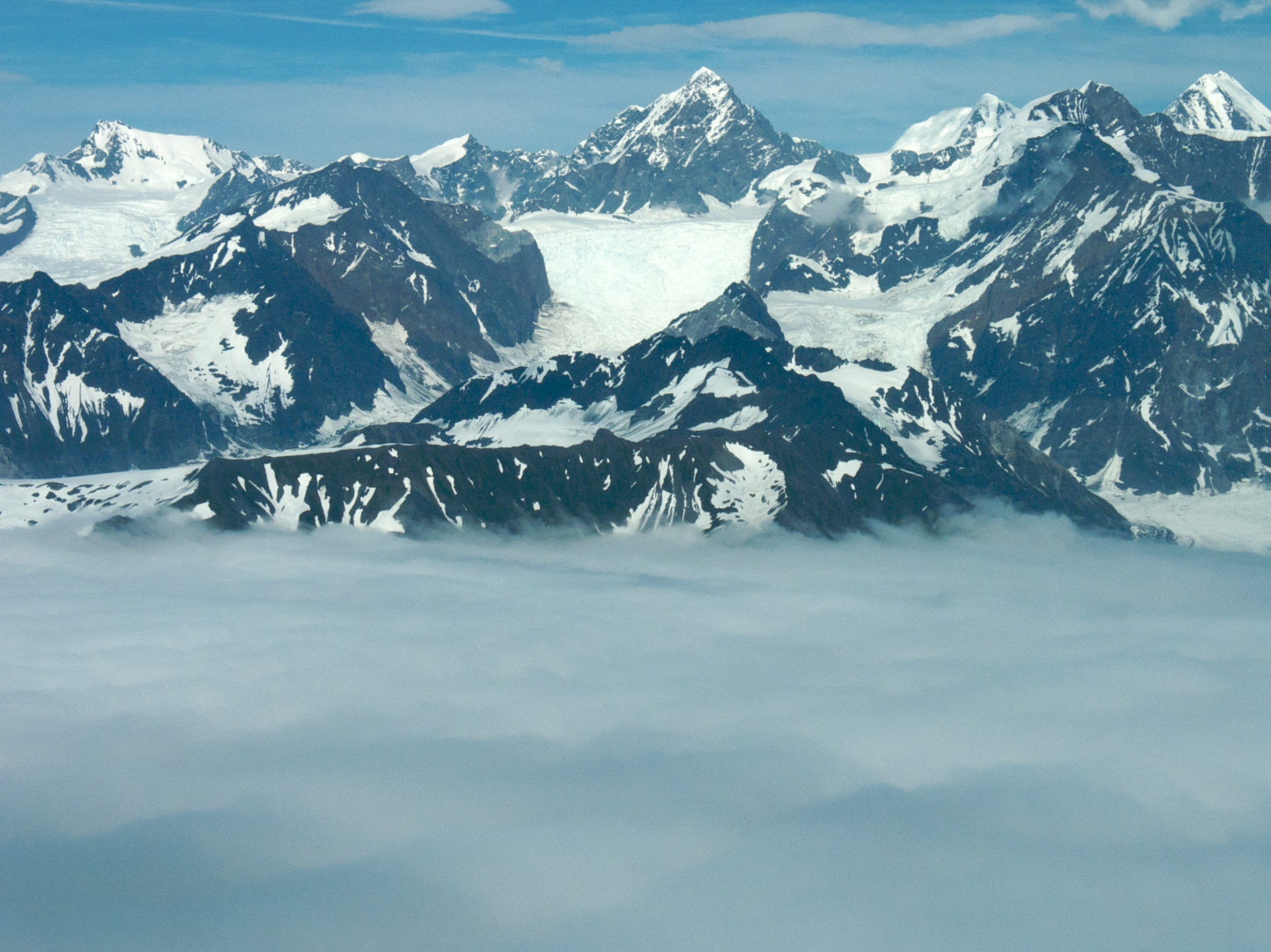 Mt Watson